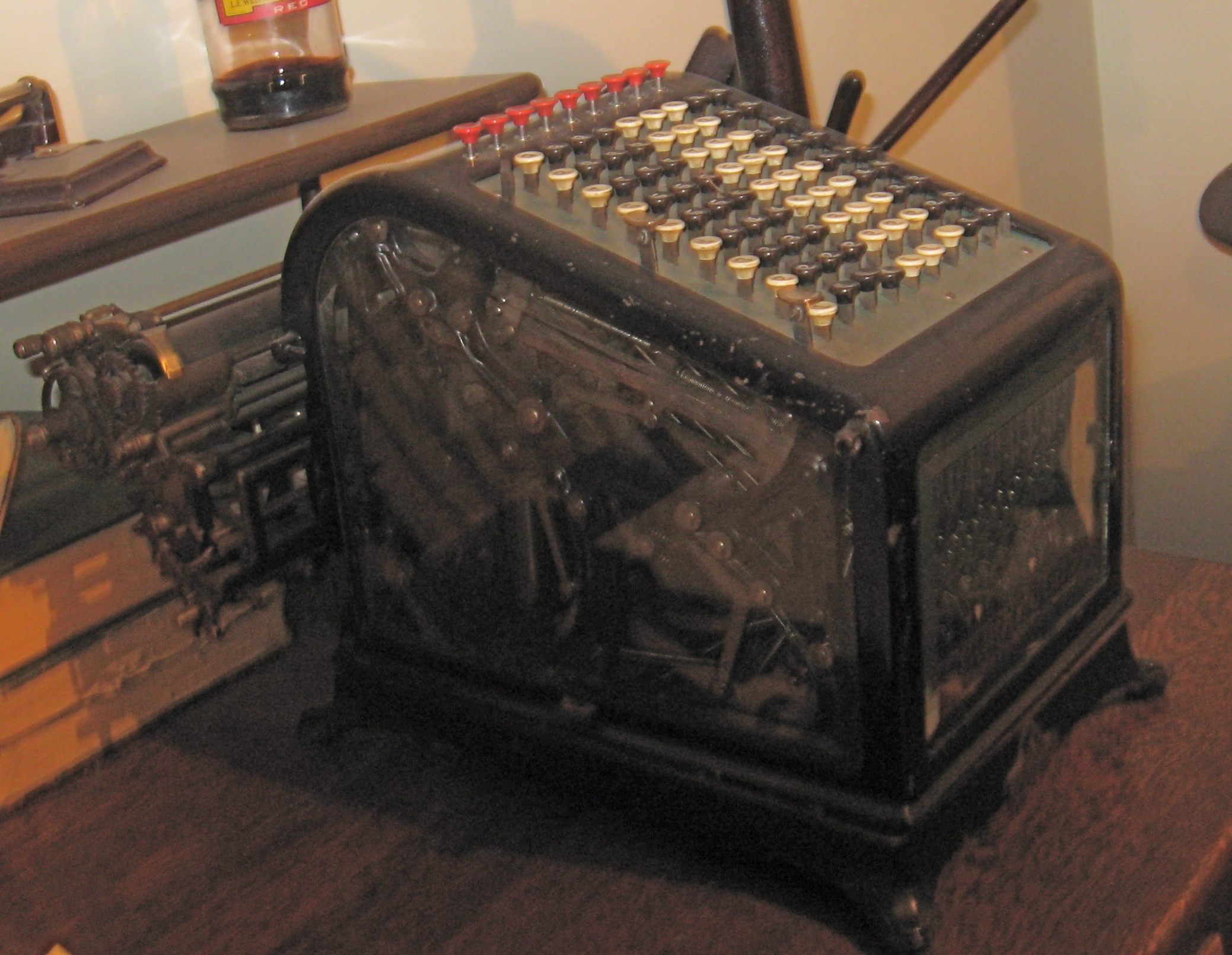 1890s Burroughs adding machine, shot at Western Development Museum, Saskatoon